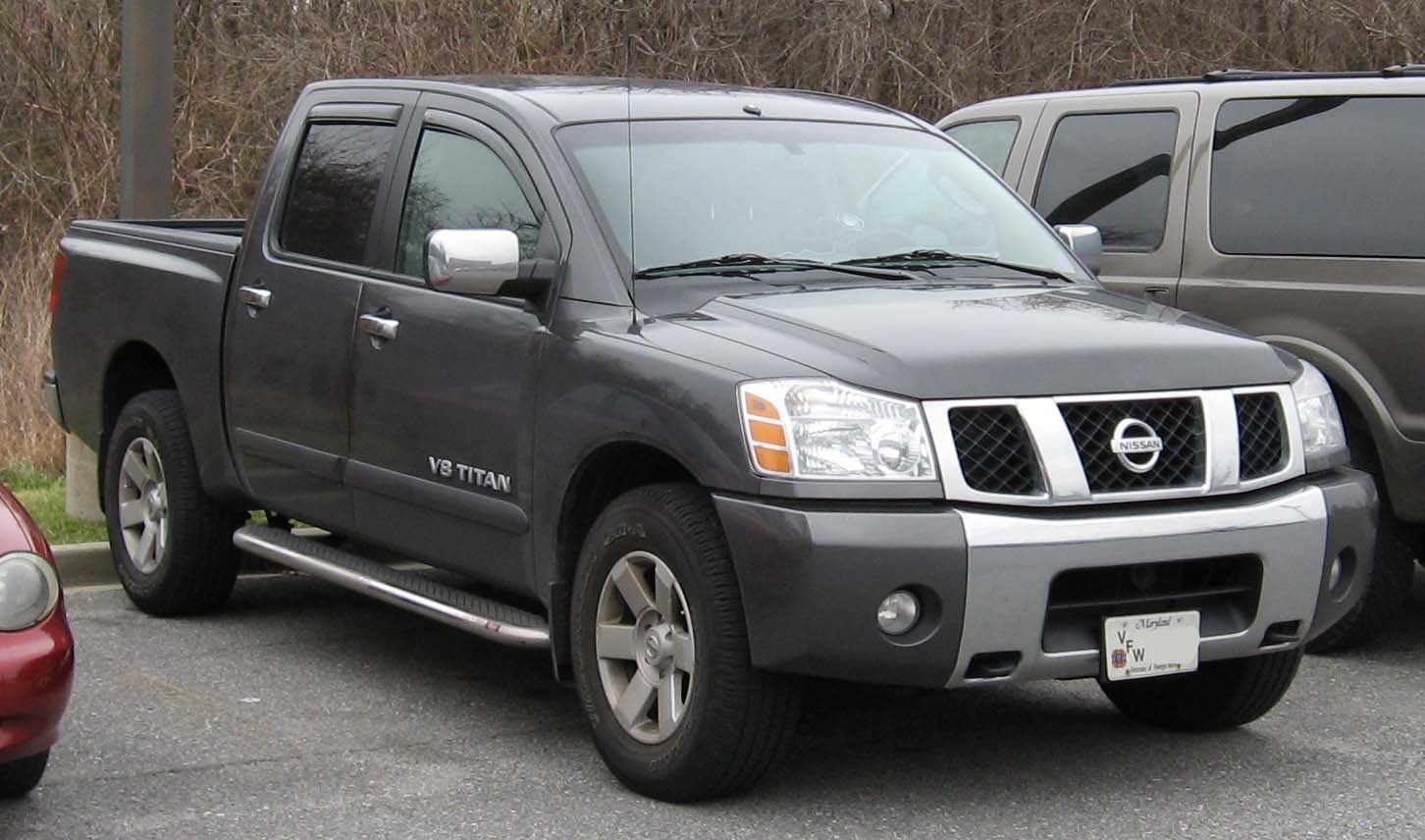 2004-2007 Nissan Titan photographed in USA.